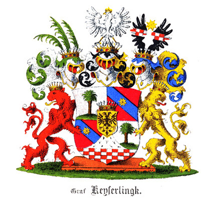 Coat of Arms of Keyserling family